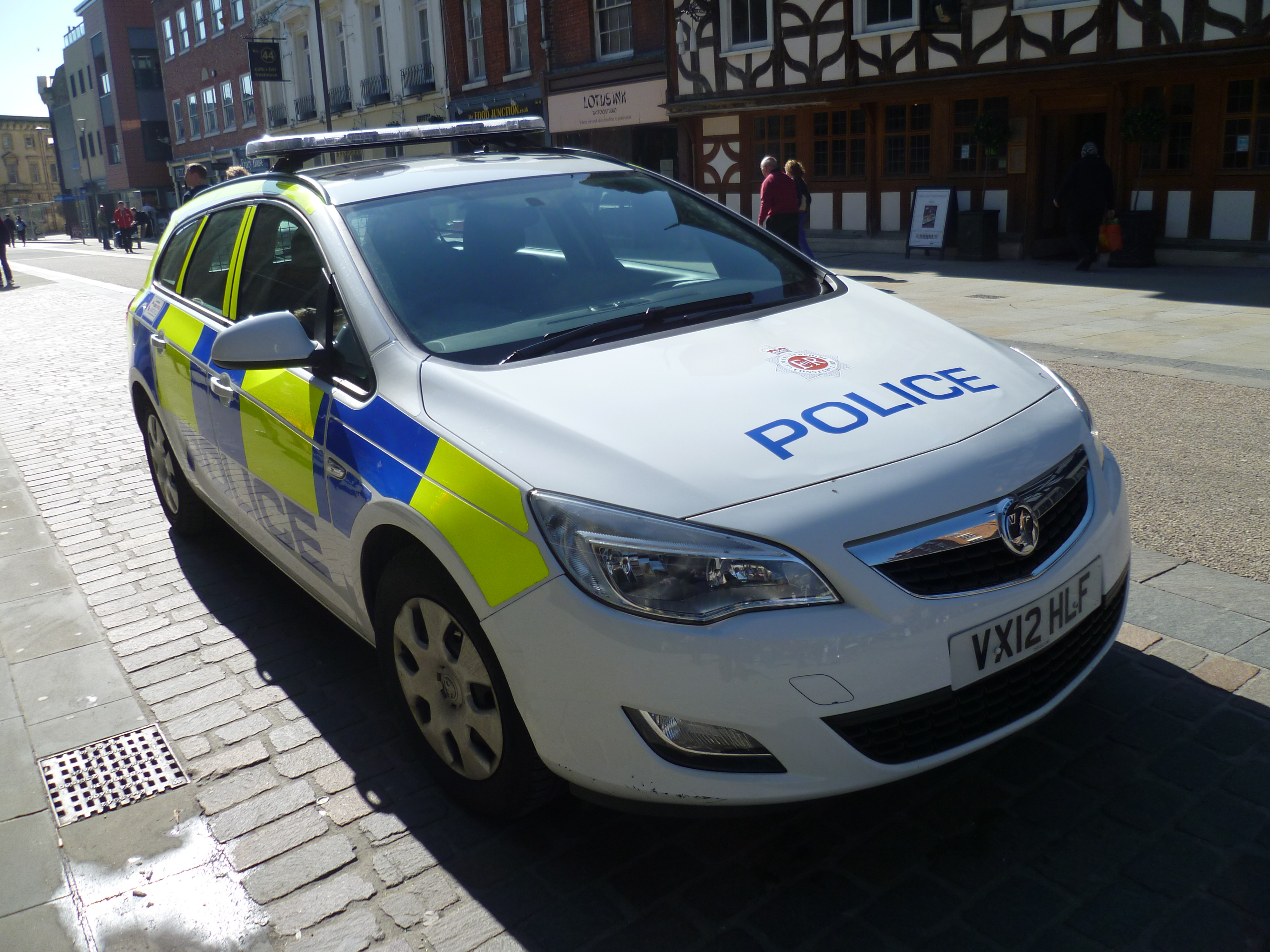 Gloucester